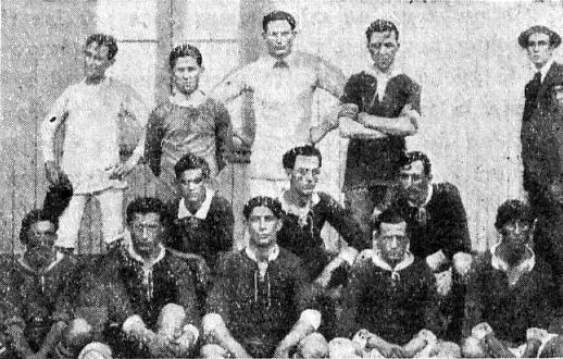 Team of A.A. Eureka that played San Telmo the semifinals of Segunda División. The winning team qualified to the final to promote to División Intermedia.